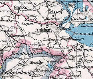 Detail from a map of Pomerania.